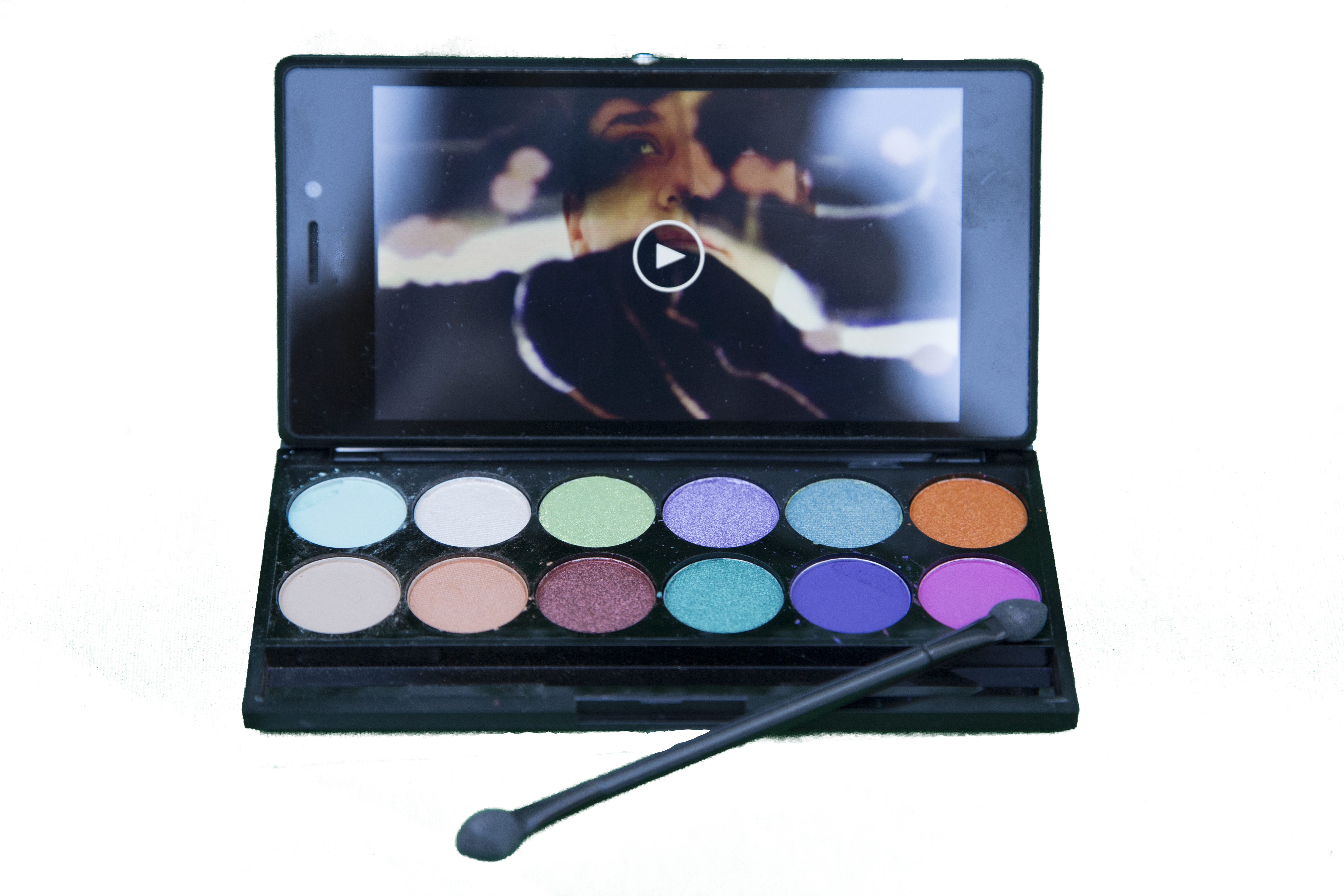 Videoart mounted in a screen on makeup box.